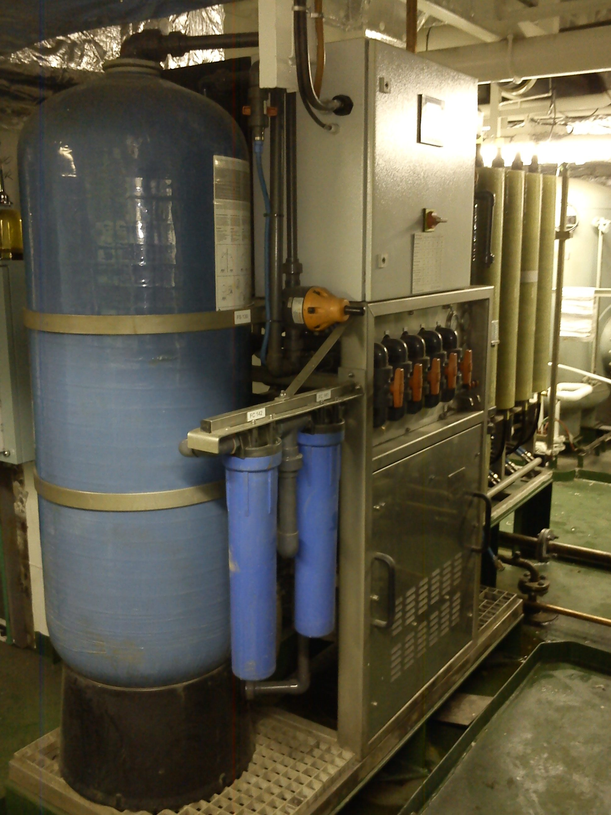 Reverse osmosis plant used for desalinate seawater.